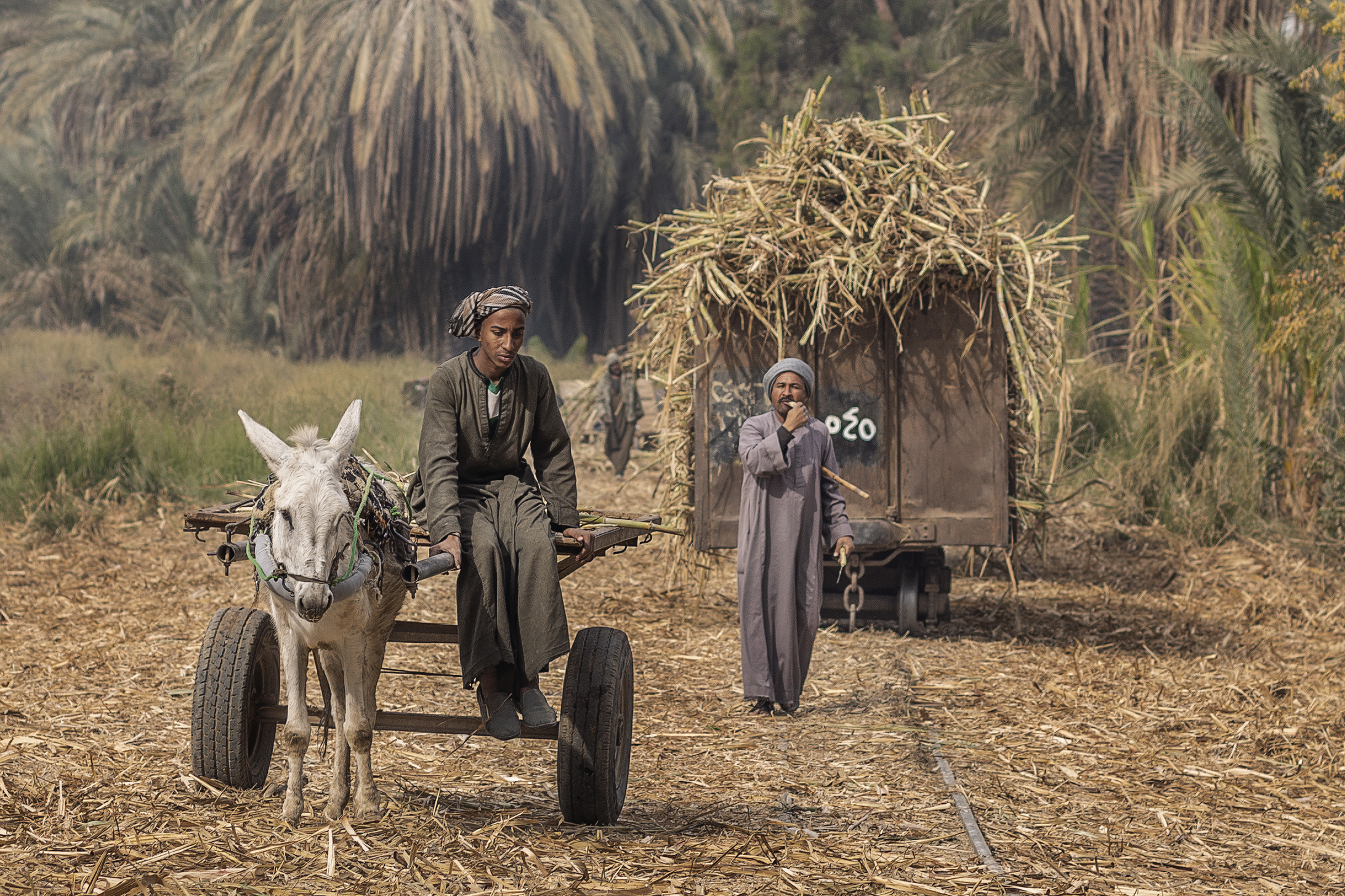 life style and work in Aswan This is an image with the theme "Africa on the Move or Transport" from: Egypt